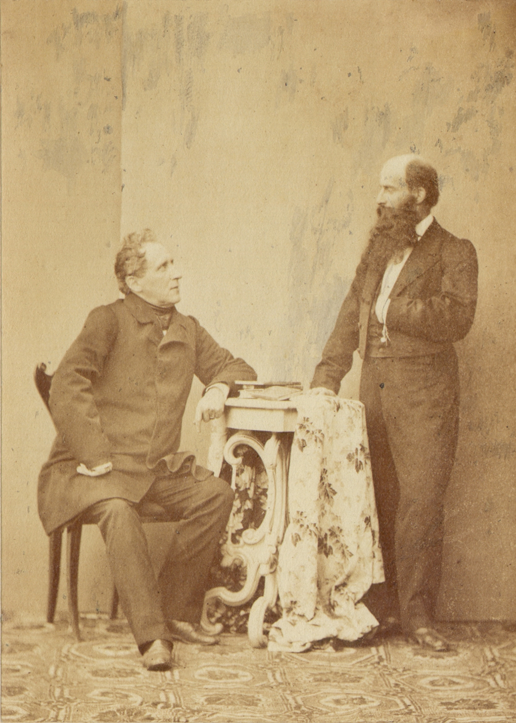 Lovro Toman and Janez Bleiweis, Slovenian politicians of the mid 19th century.